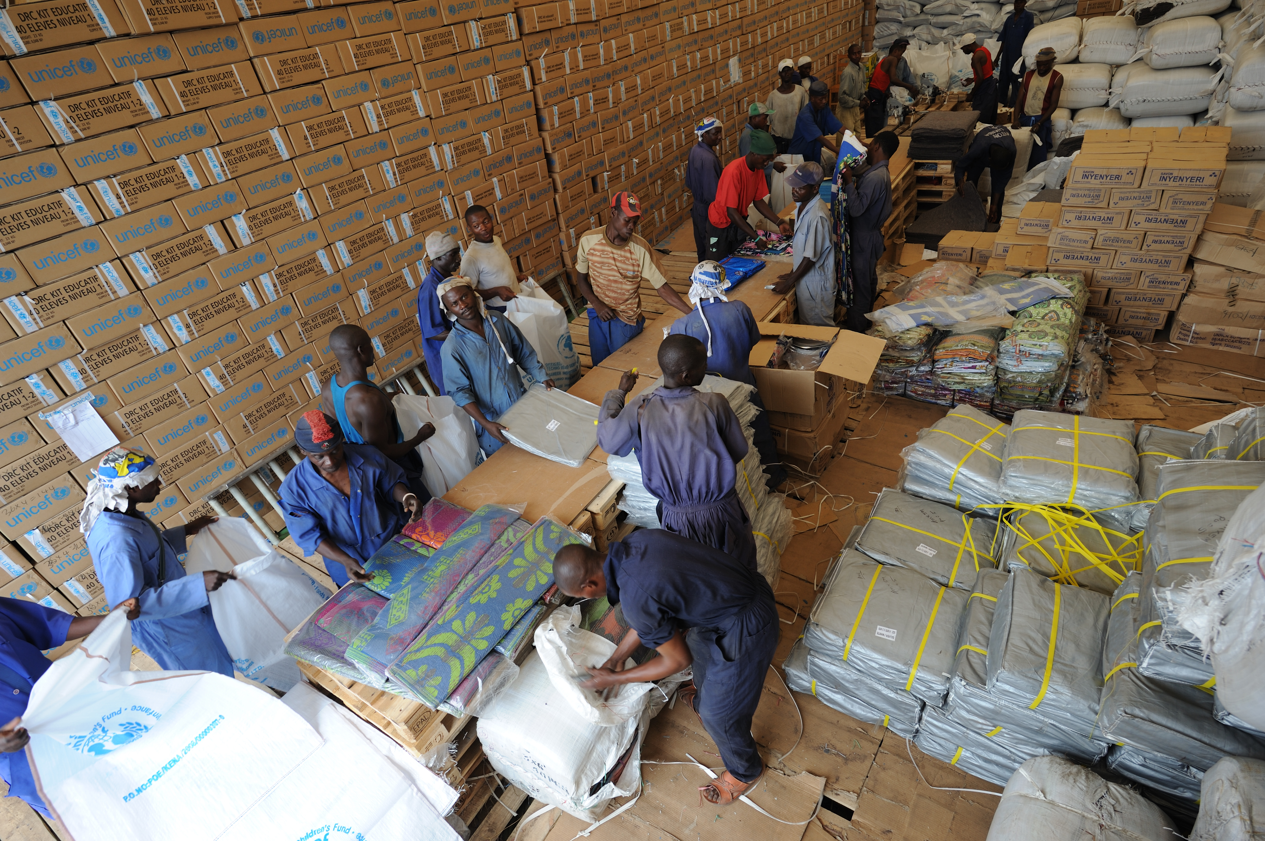 "Over the last ten days we have flown in 16 flights of aid. It is a mixture of thousands of blankets, tarpaulins, sleeping mats, cooking sets and soap. With this people who have fled their homes can ward off the respiratory and waterborne diseases that are so common here. We need to turn these loose items into 27,000 family kits to cover 135.000 people. To do this we called in a warehouse manager flew in from our supply division in Copenhagen, 48 hours later and the day before the first flight he was here and setting up a kitting line. We are now producing 1.000 kits a day that are being passed on to our implementing partners for immediate distribution." - author